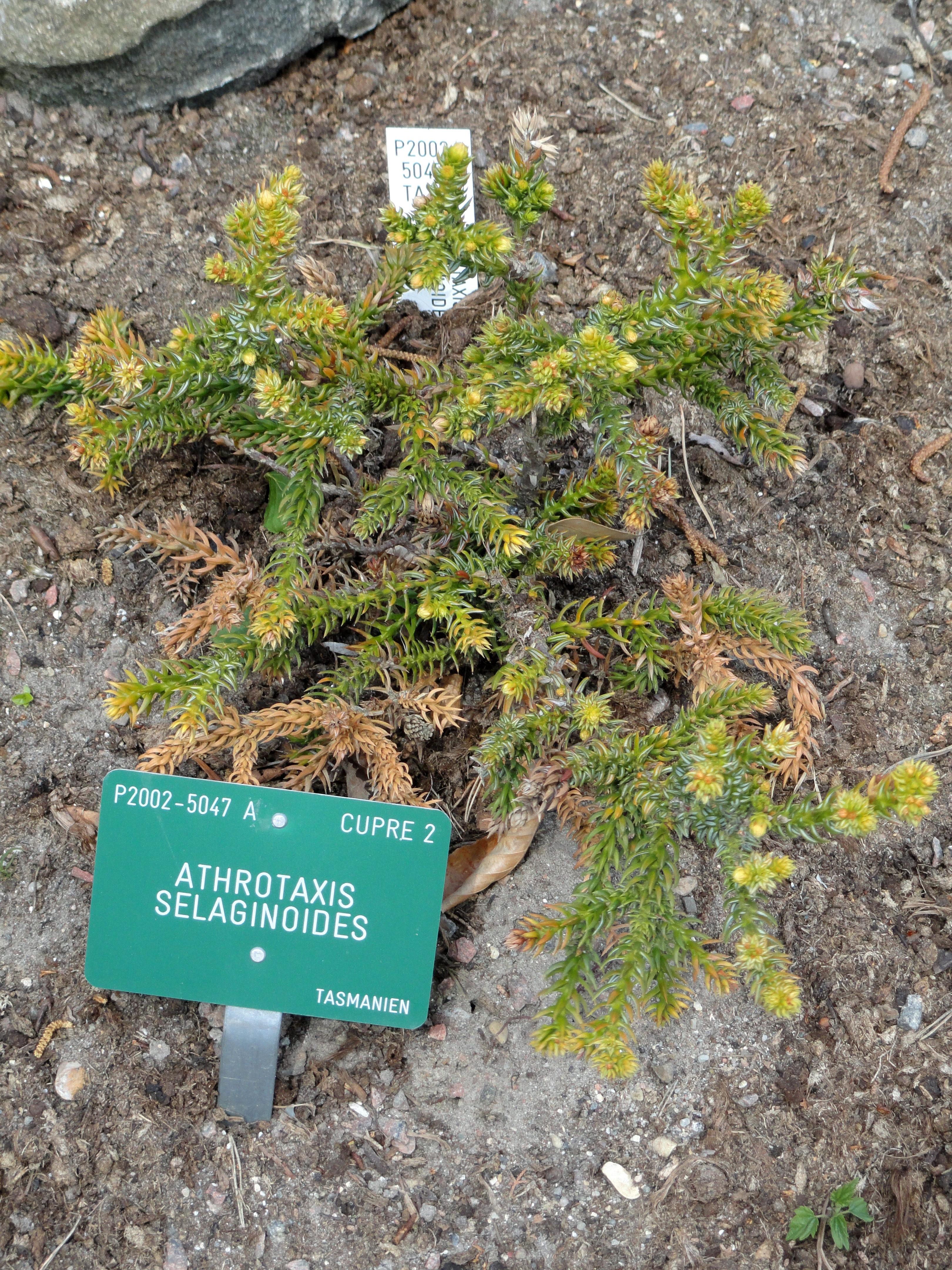 Botanical specimen in the University of Copenhagen Botanical Garden, Copenhagen, Denmark.